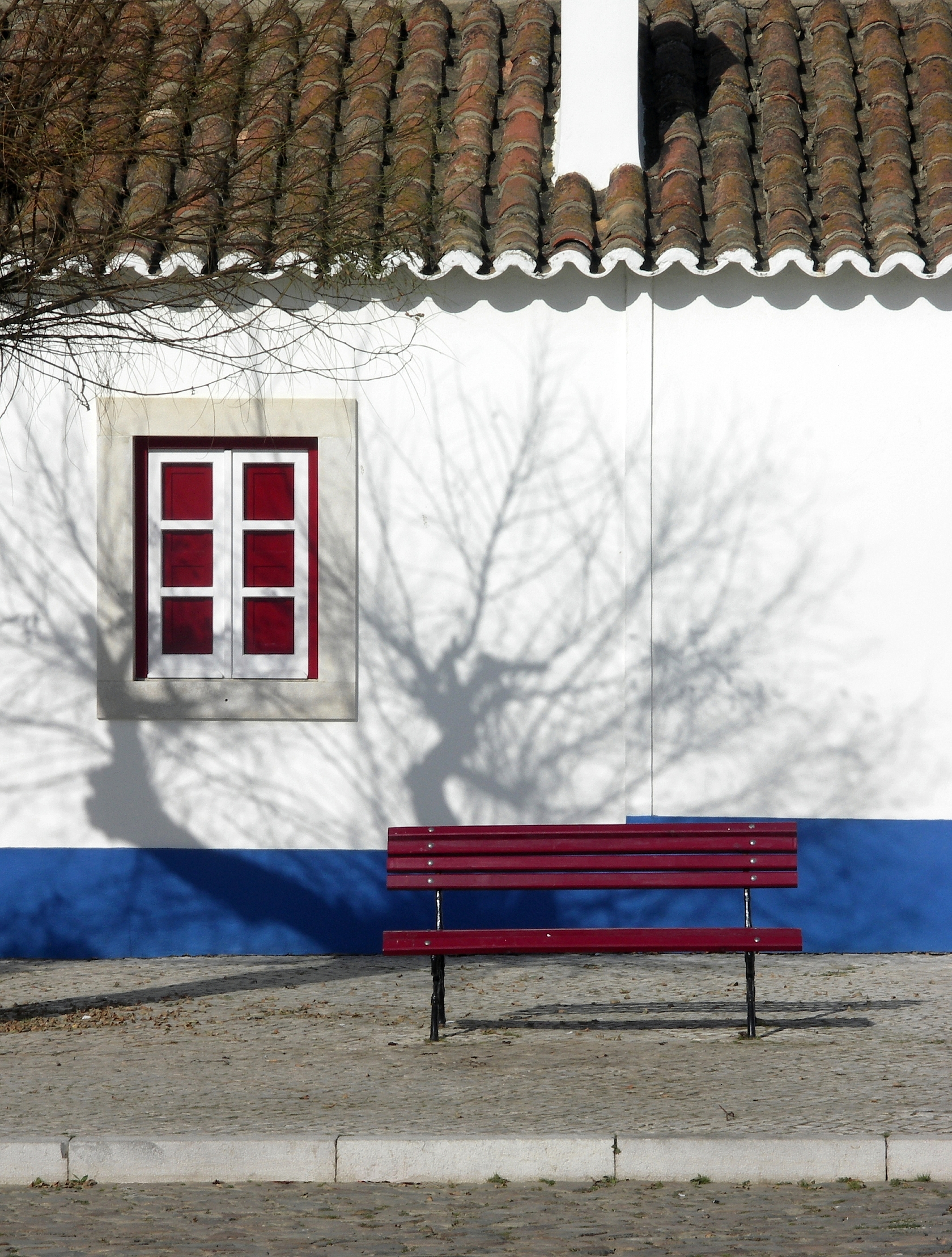 Village of Porto Covo, west coast of Portugal.